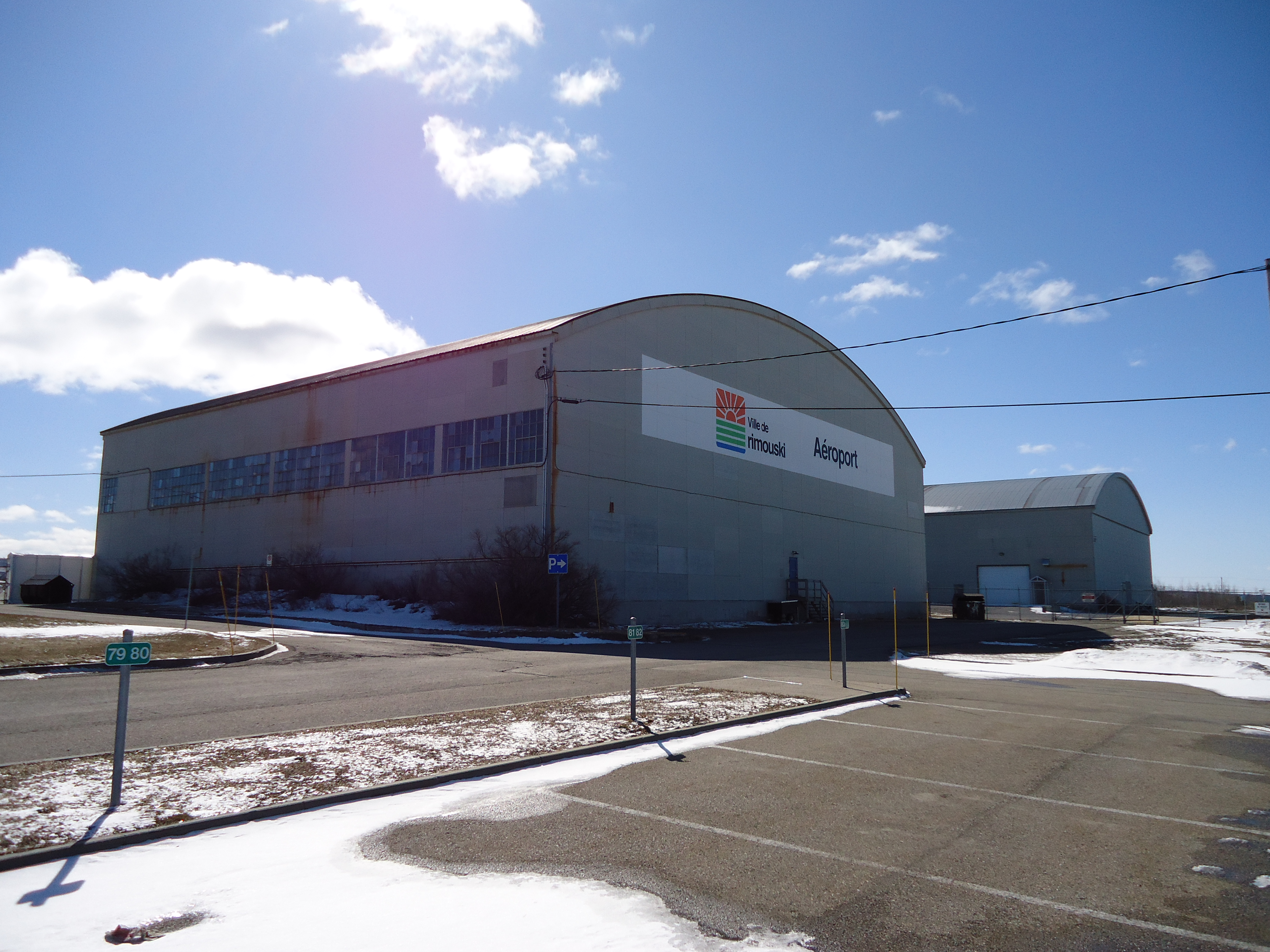 Hangars of the Rimouski airport.